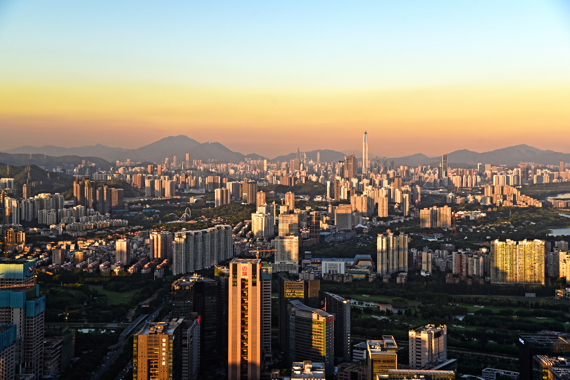 Shenzhen Skyline from Nanshan 2016